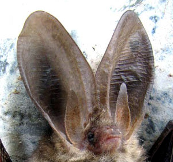 Portion of above file emphasising ears